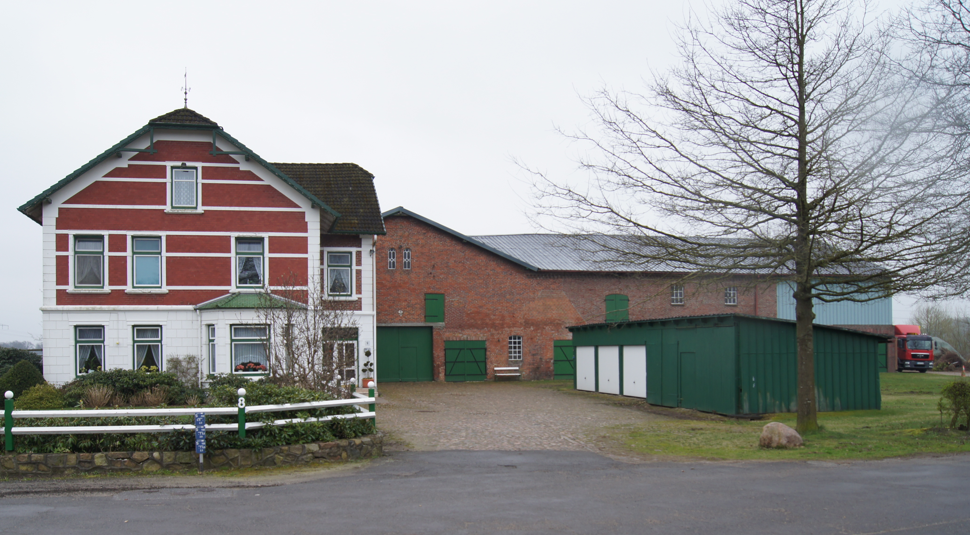 Bilsen (Bilsen), Germany: Farm